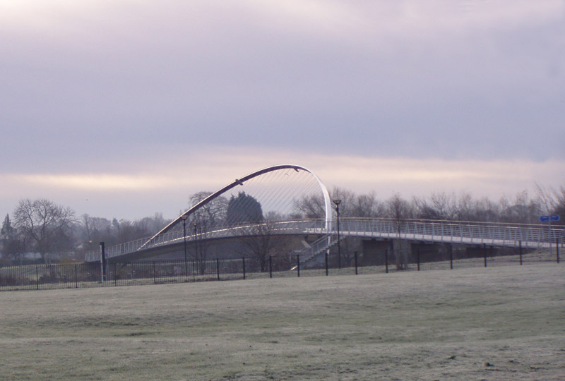 York Millennium Bridge. Photo taken November 2003. From the South Bank looking towards Fulford.